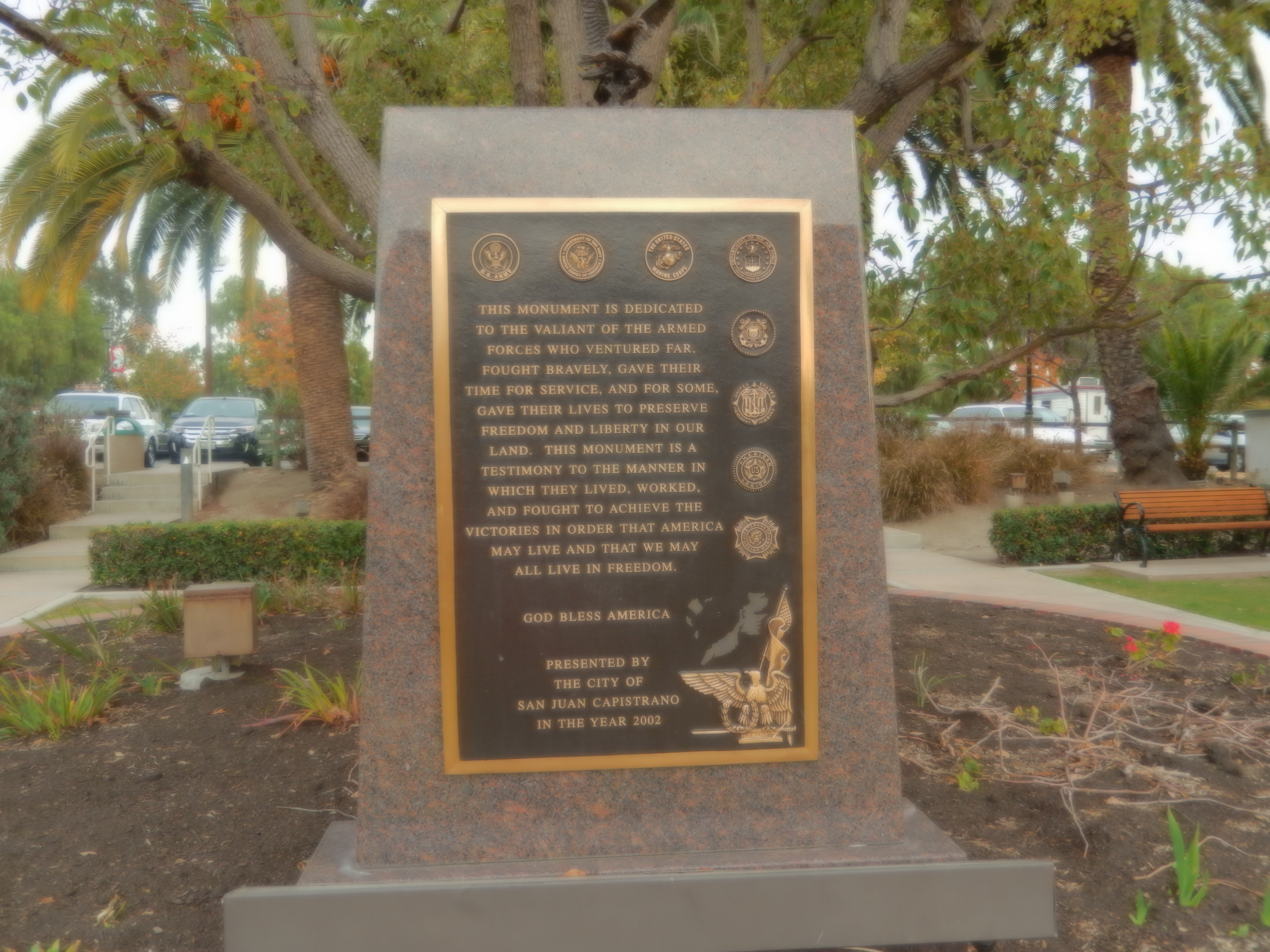 I took photo of Veterans Monument at San Juan Capistrano, CA, with Nikon camera.